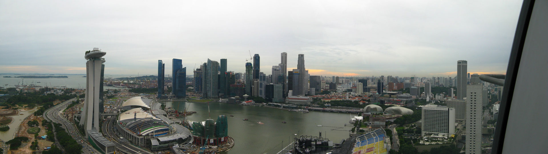 Panoramic view of Marina Bay, Singapore, from the Singapore Flyer.